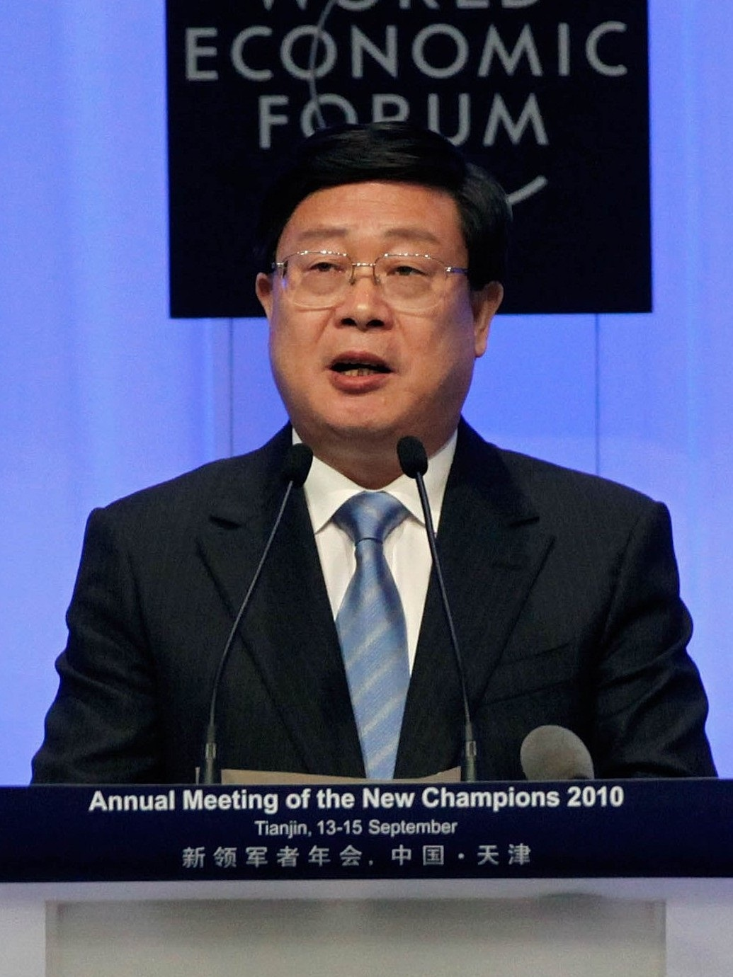 TIANJIN/CHINA 13SEP10 - Huang Xingguo, Mayor of Tianjin, speaks at the Welcoming Plenary Session of the Annual Meeting of the New Champions in Tianjin, China, September 13, 2010. Copyright World Economic Forum /Adam Dean